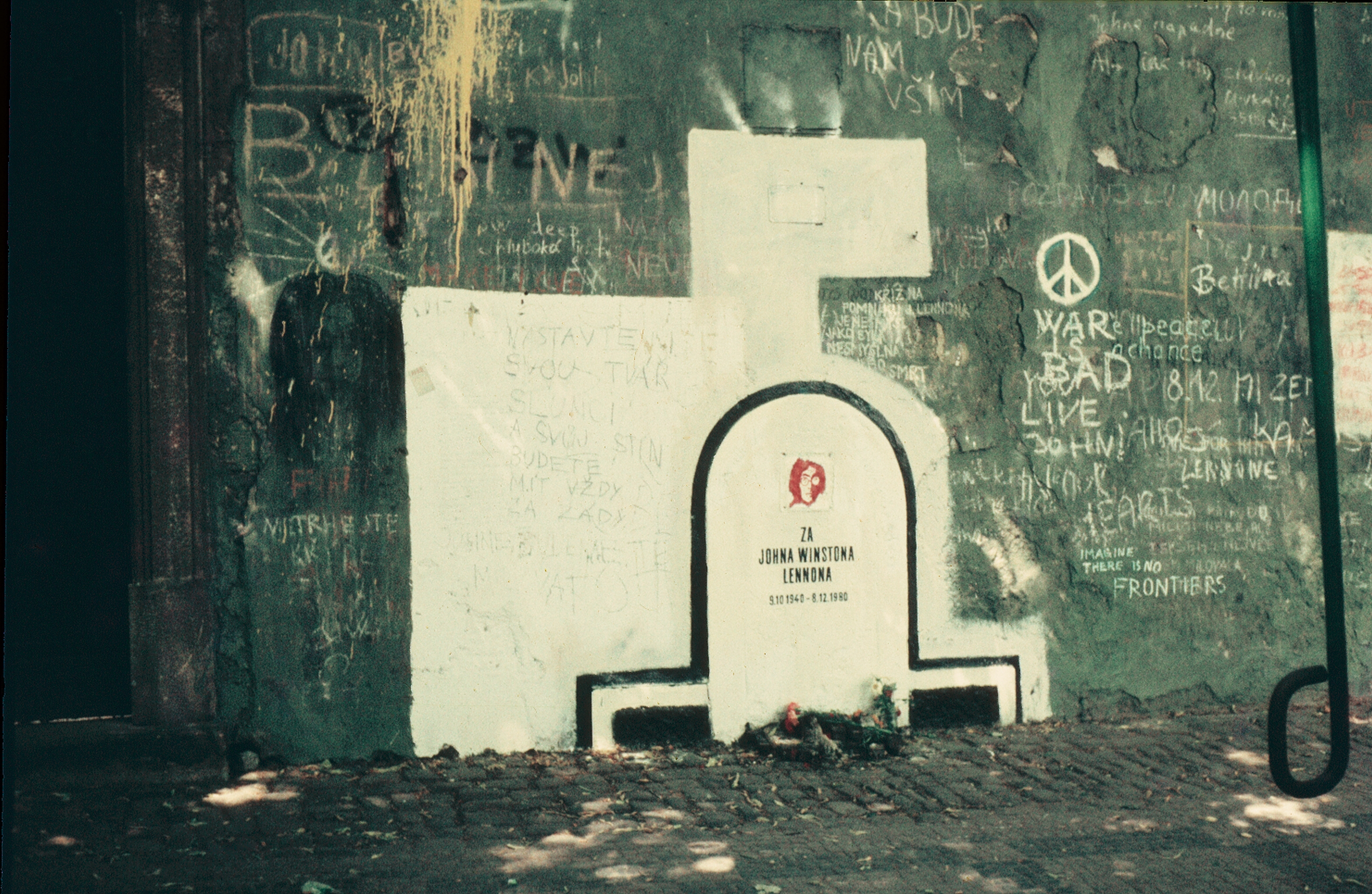 “John Lennon Wall”, Velkopřevorské Square, Prague, Czech Rep. (around 1983)